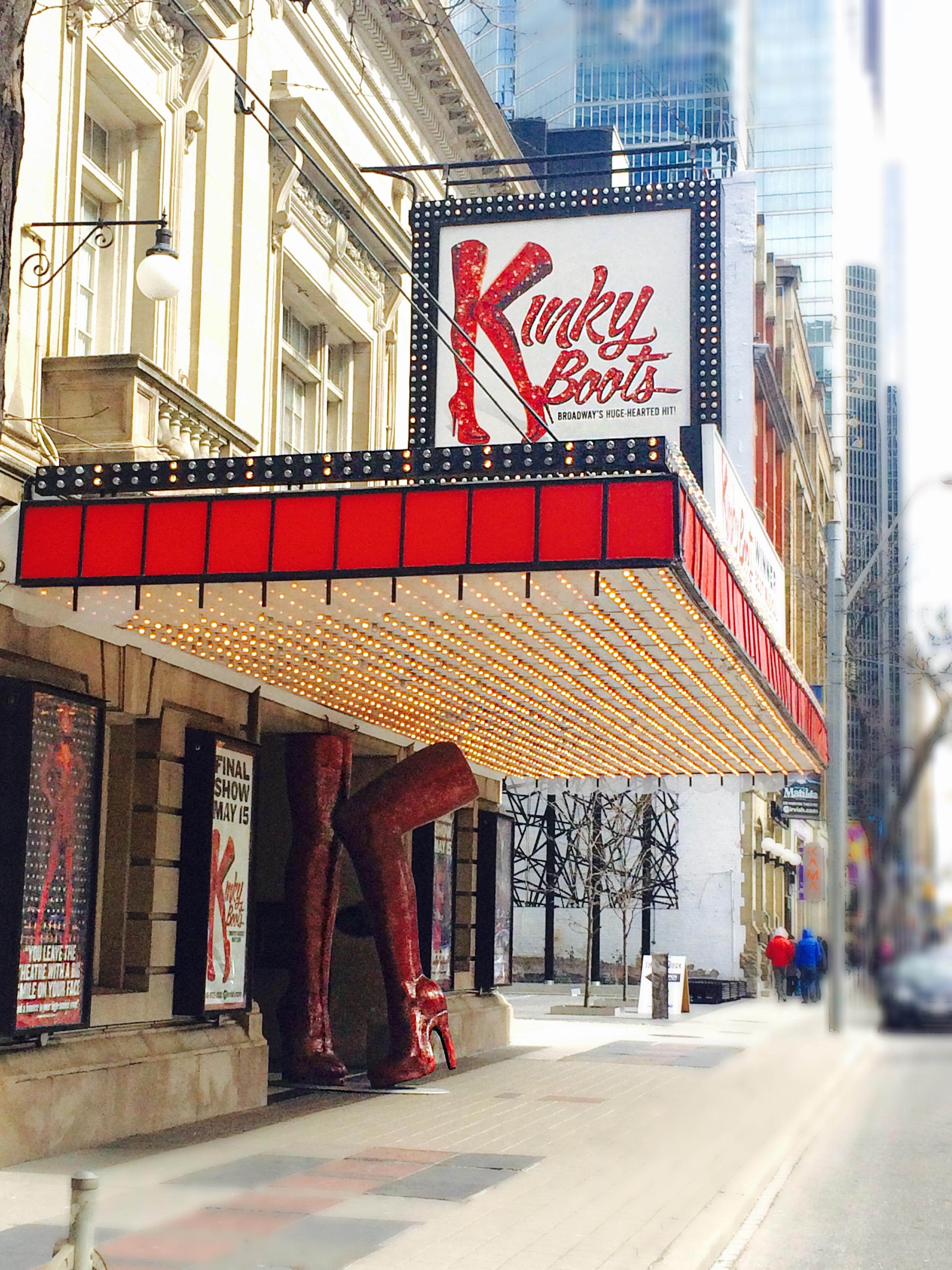 Kinky Boots at the Royal Alexandra Theatre, Toronto, Canada. The front of house marquee with its famous giant red Kinky Boots.